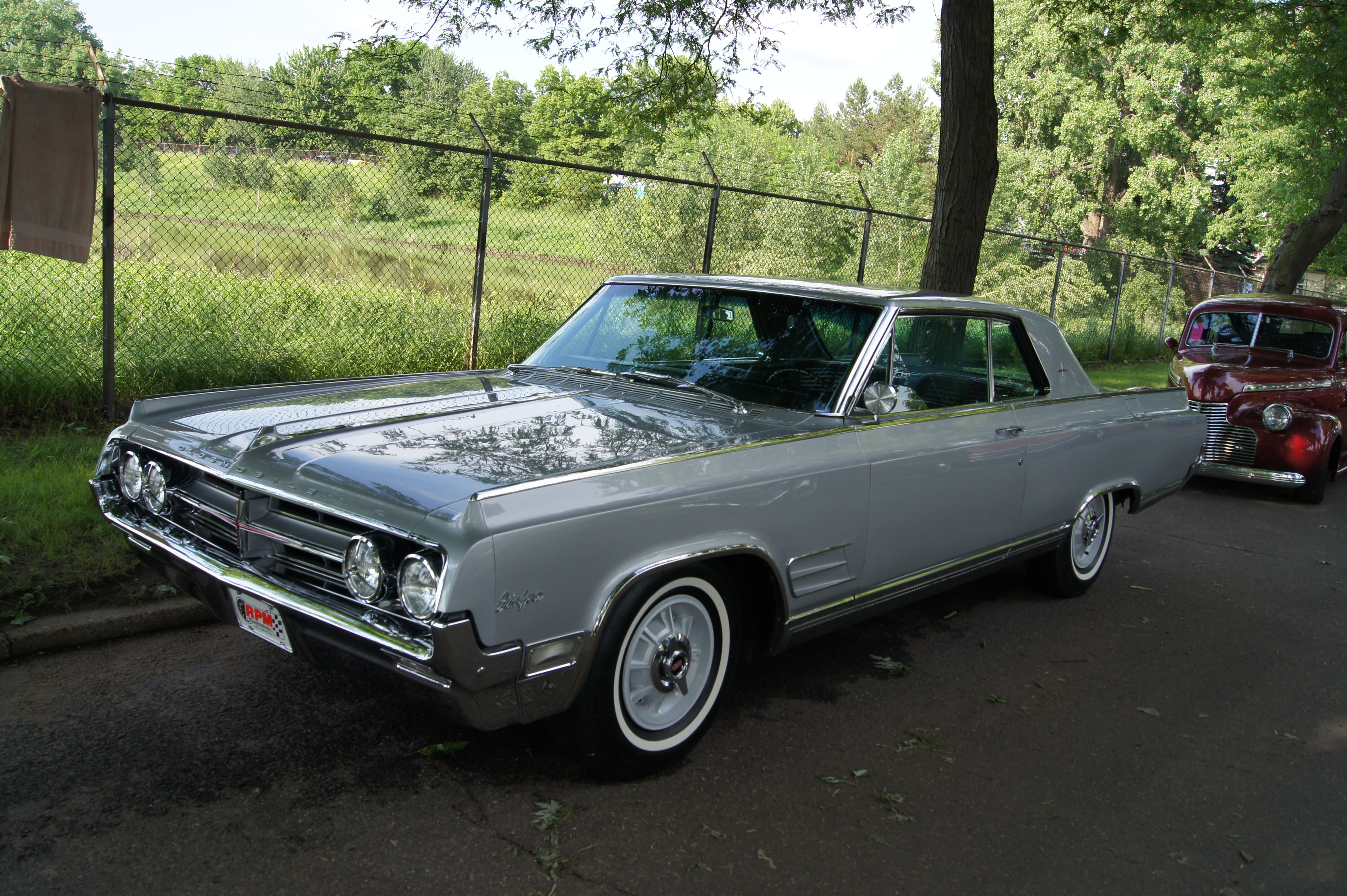 MSRA “BACK TO THE 50′s” 40th ANNIVERSARY June 21-23, 2013 State Fairgrounds St. Paul Minnesota More Car Pictures